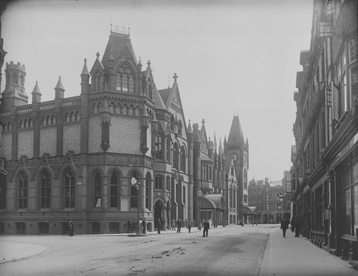 Municipal Buildings, Reading, from the north-west, c. 1900. 1900-1909 ; glass negative, Box 22 No. 11132, by H. W. Taunt.